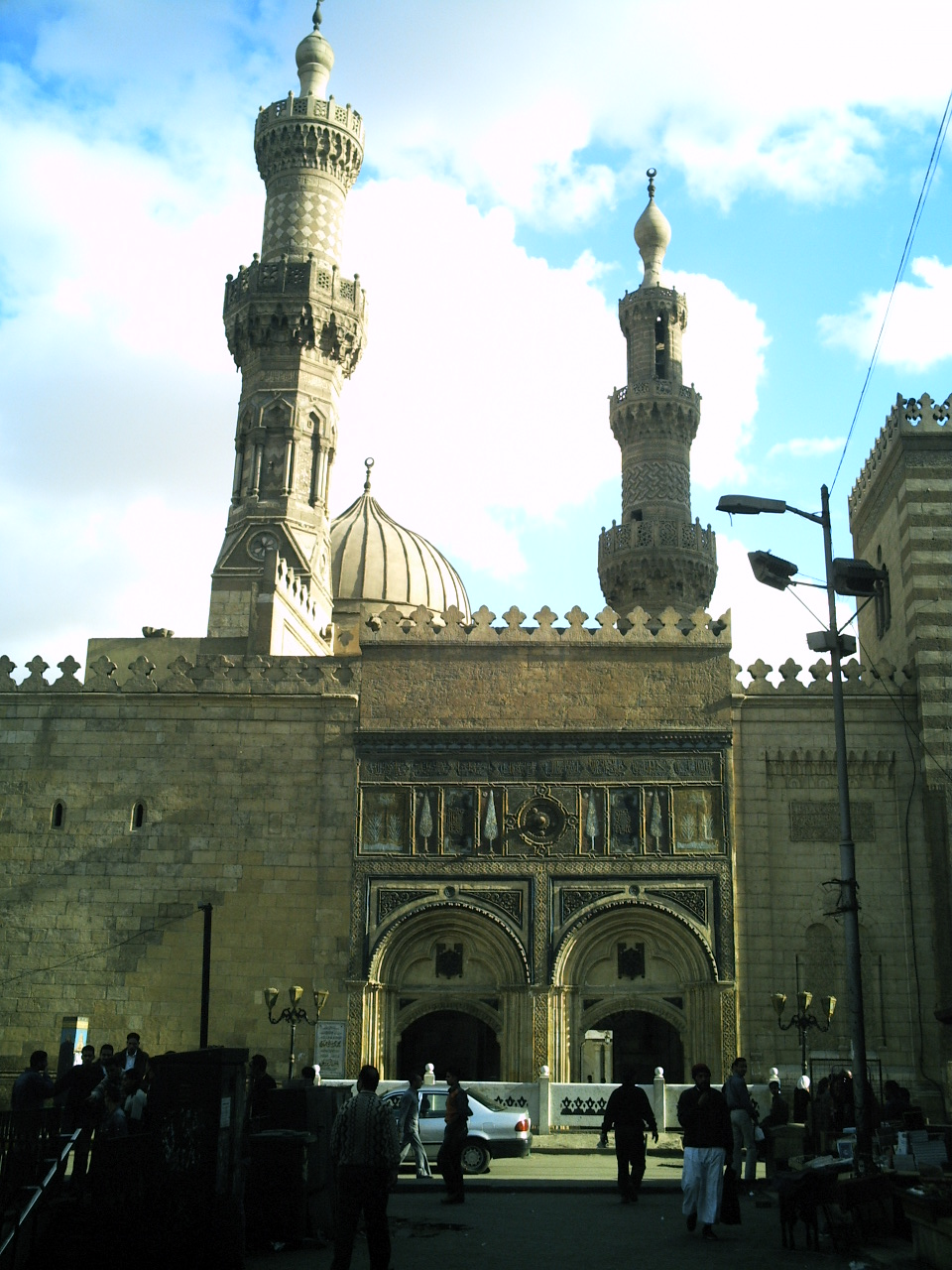 View of exterior from bab al-muzaynin